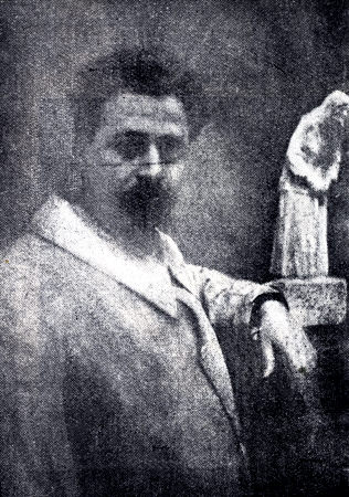 Loukas Doukas (1890-1925)